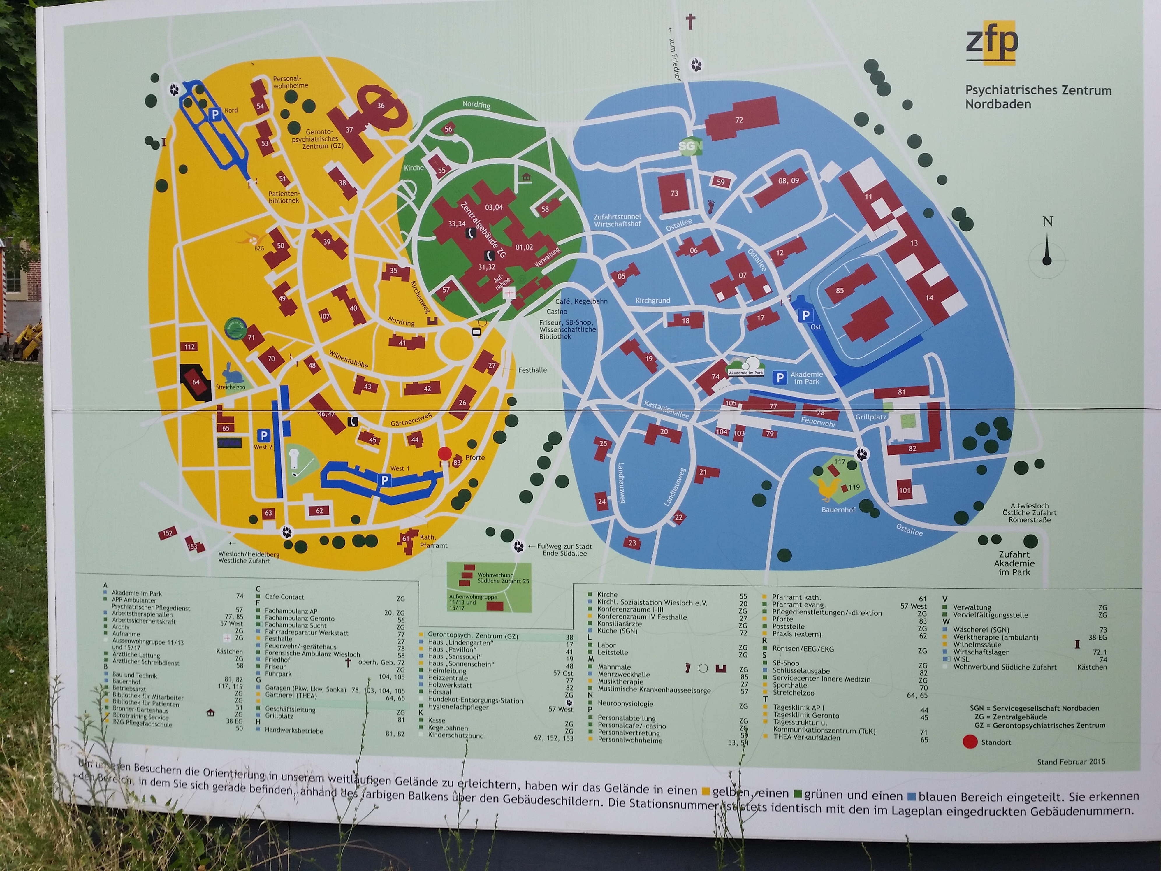 Psychiatrisches Zentrum Nordbaden (PZN) in Wiesloch, Baden-Württemberg. Psychiatric Center in Wiesloch, Baden-Württemberg, South-East Germany.